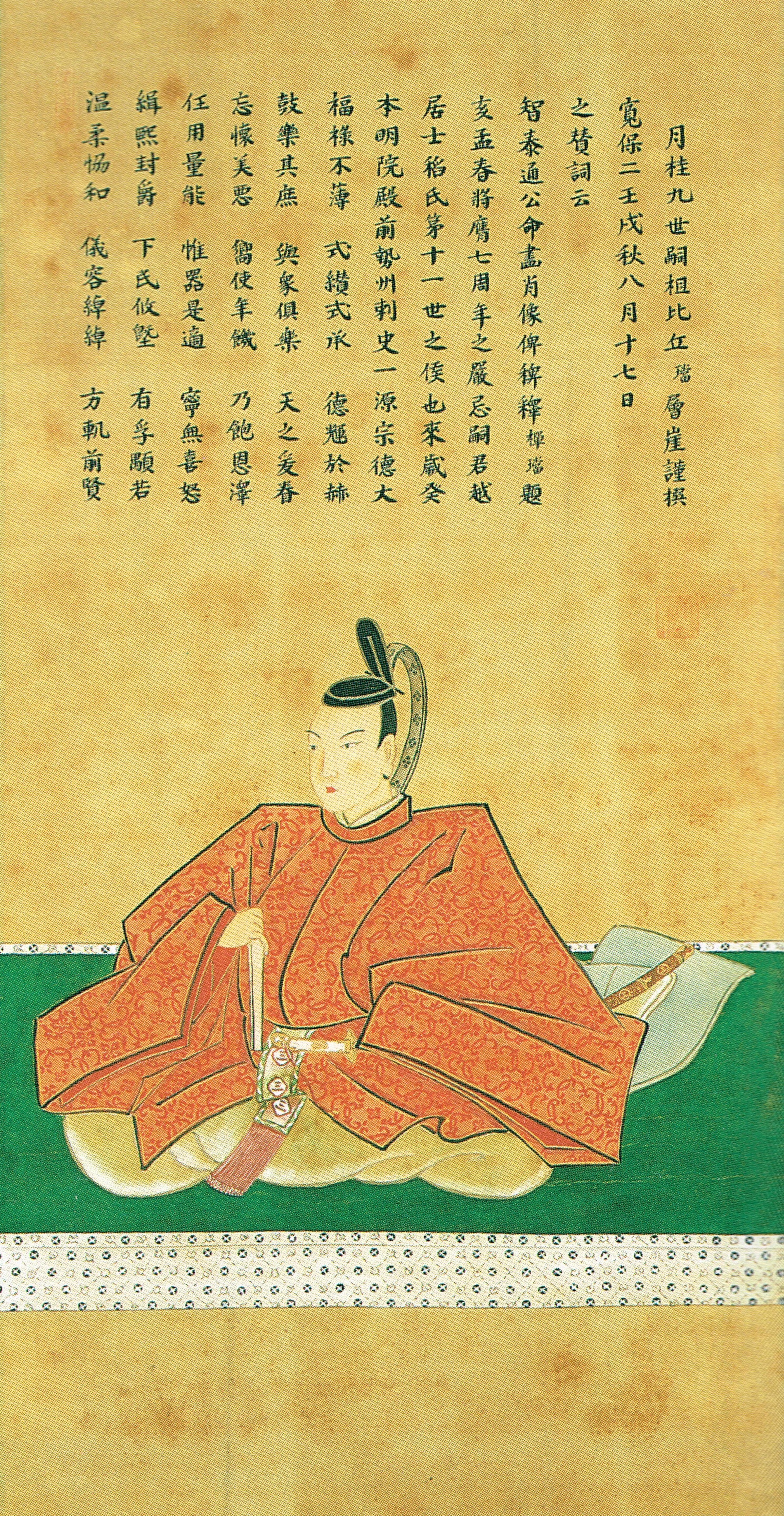 Portrait of Inaba Masamichi, owned by Gekkei-ji Temple in Usuki, Oita, Japan